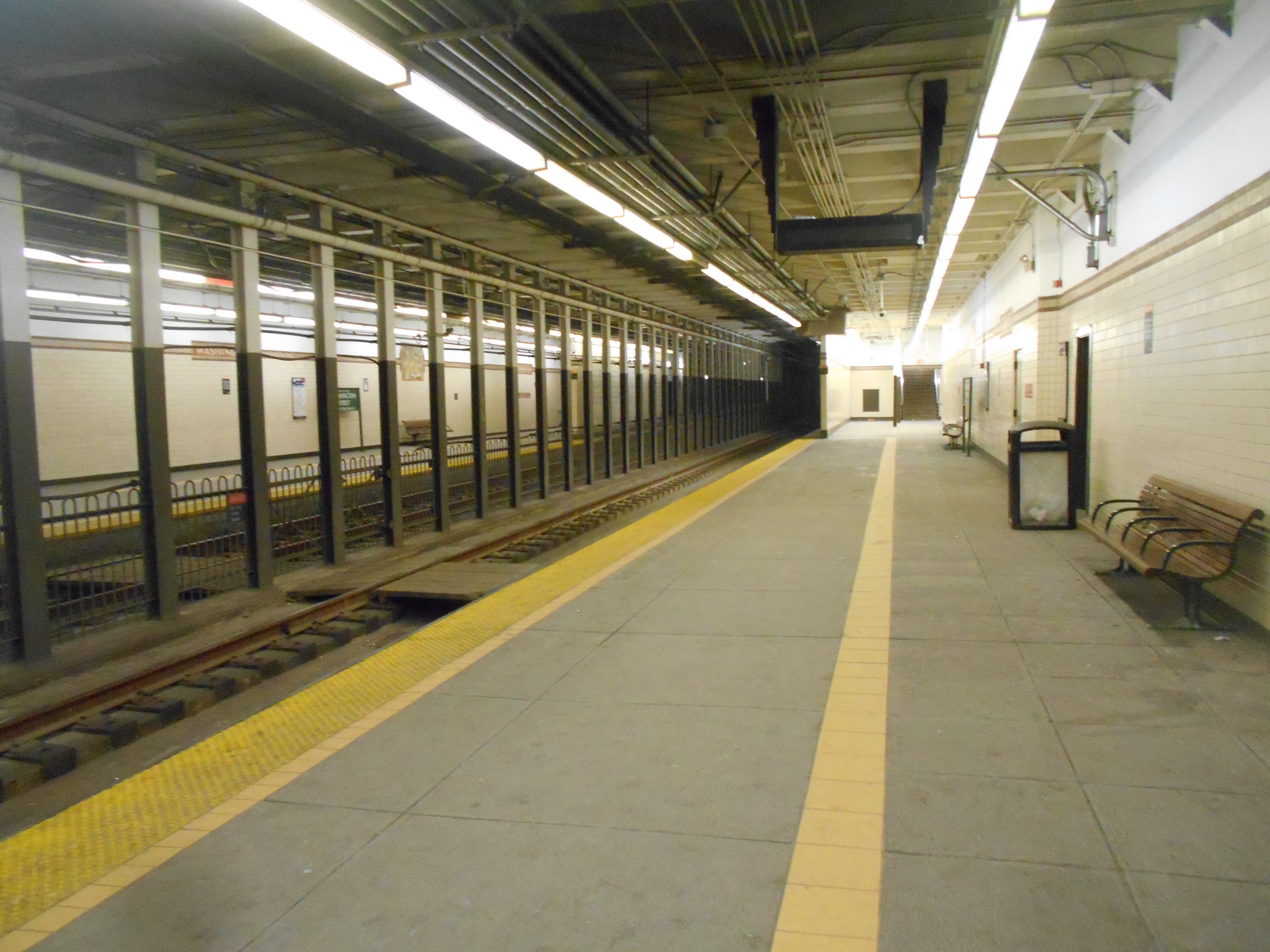 The Washington Street station in Newark, New Jersey.